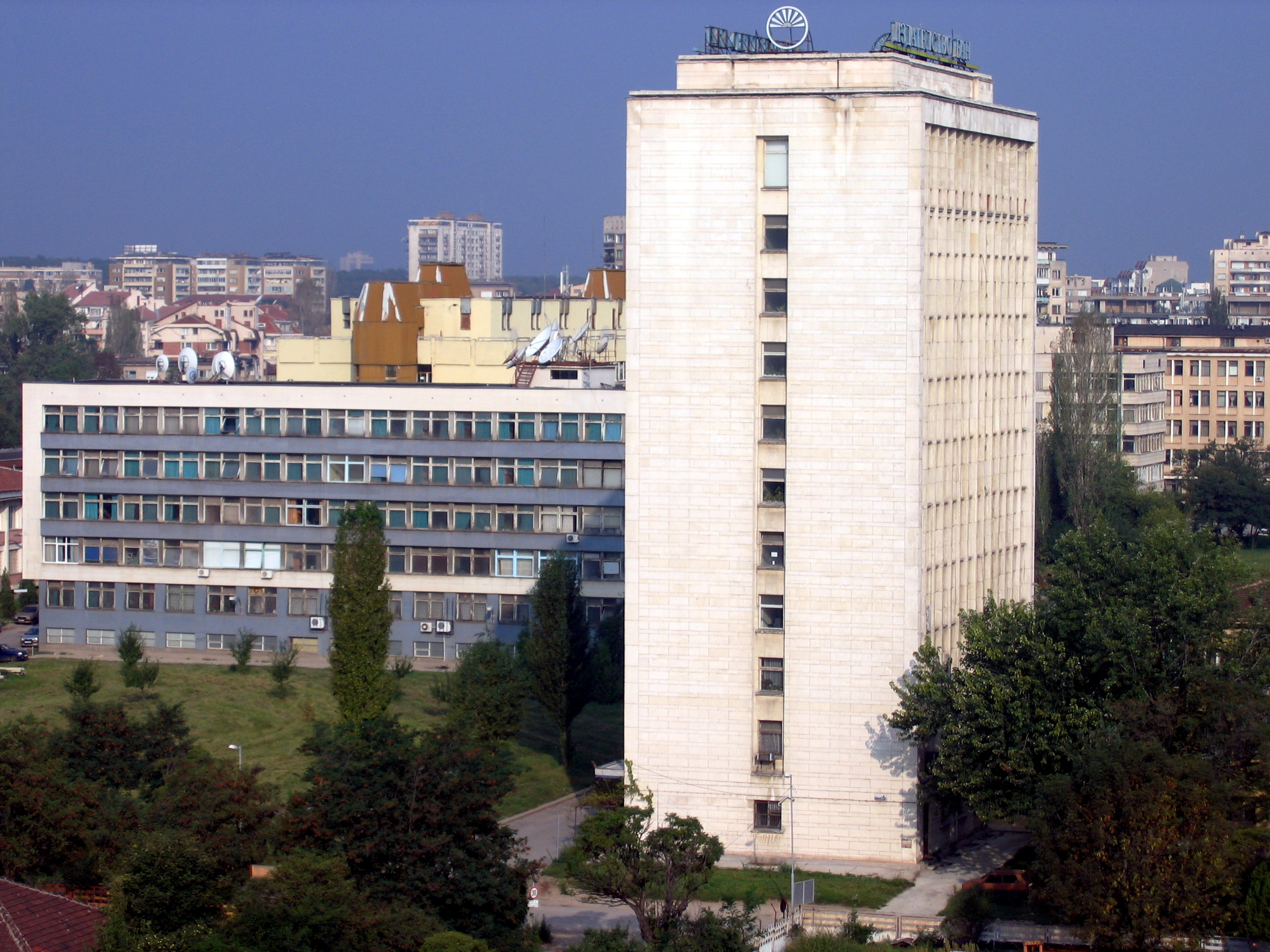 Institute of Mathematics and Informatics of the Bulgarian Academy of Sciences